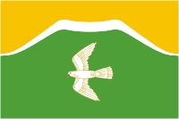 Ishimbai rayon (Bashkortostan), flag